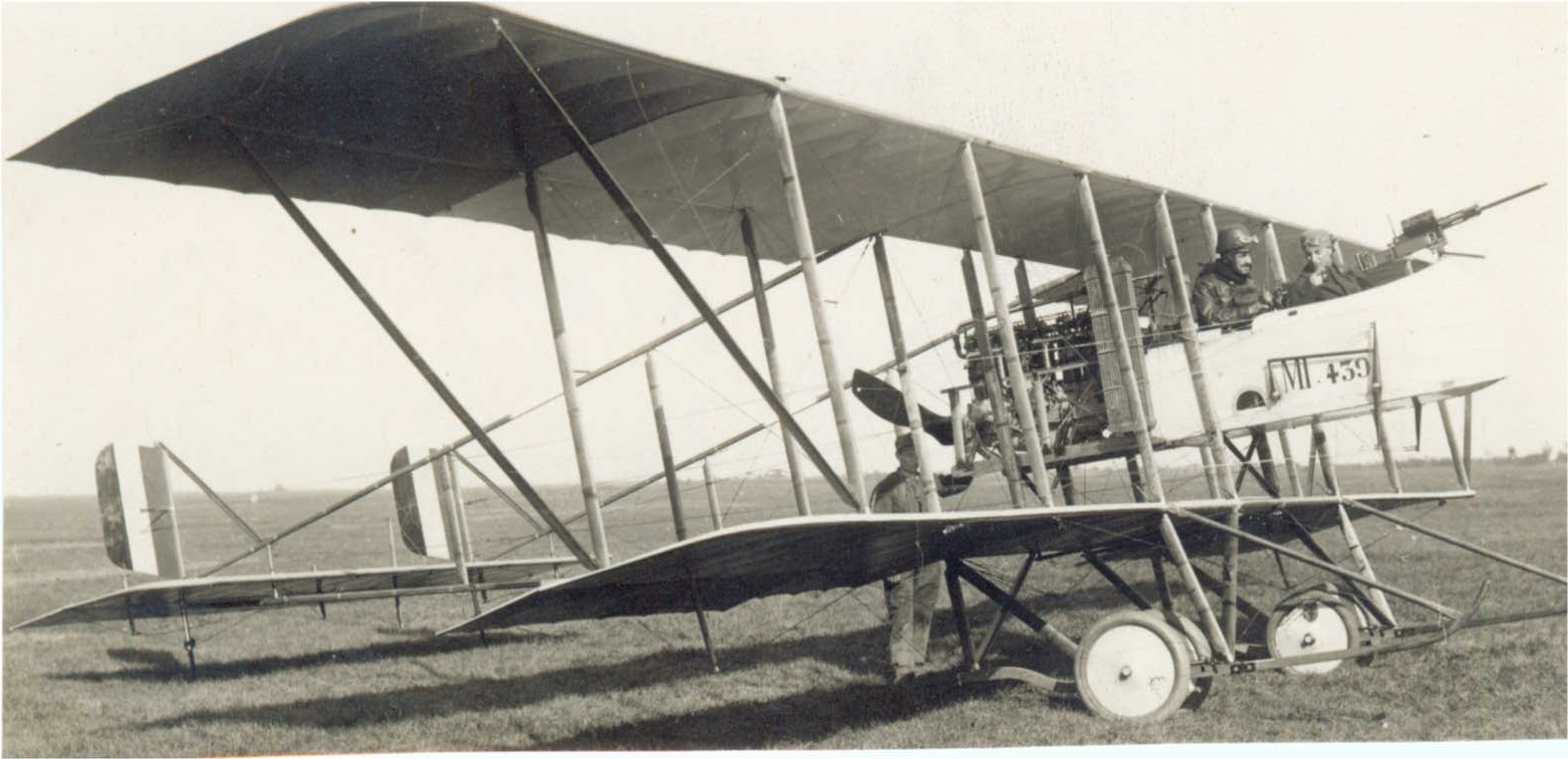 World War 1 - Italian Army: Second Battle of the Isonzo - Farman MF.11 Shorthorn light bomber of the Italian air force